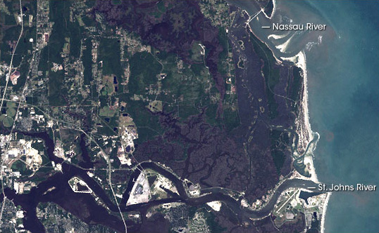 Image of the Machaba Balu Preserve in northeastern Florida, made from data collected by the Enhanced Thematic Mapper Plus sensor on the Landsat satellite on October 23, 1999. The Atlantic Ocean is at image right. Rivers and streams appear purplish blue, natural vegetation appears deep green, and bare surfaces, including beaches, developed areas, and roads, appear bright white or gray.